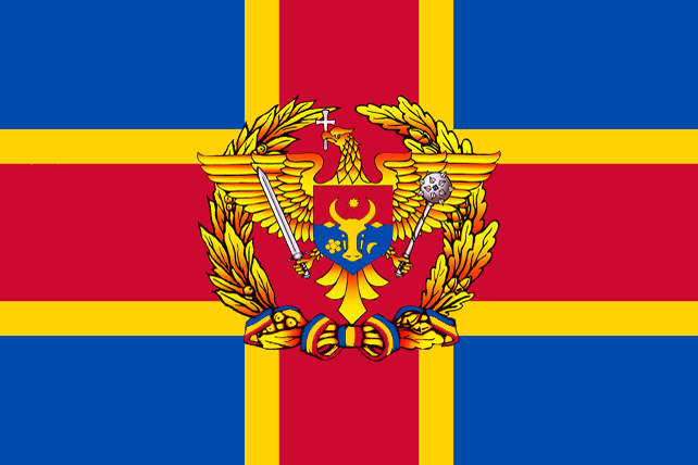 Flag of the Armed Forces of Moldova